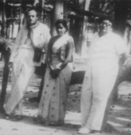 picture of Dr. Purnima Sinha